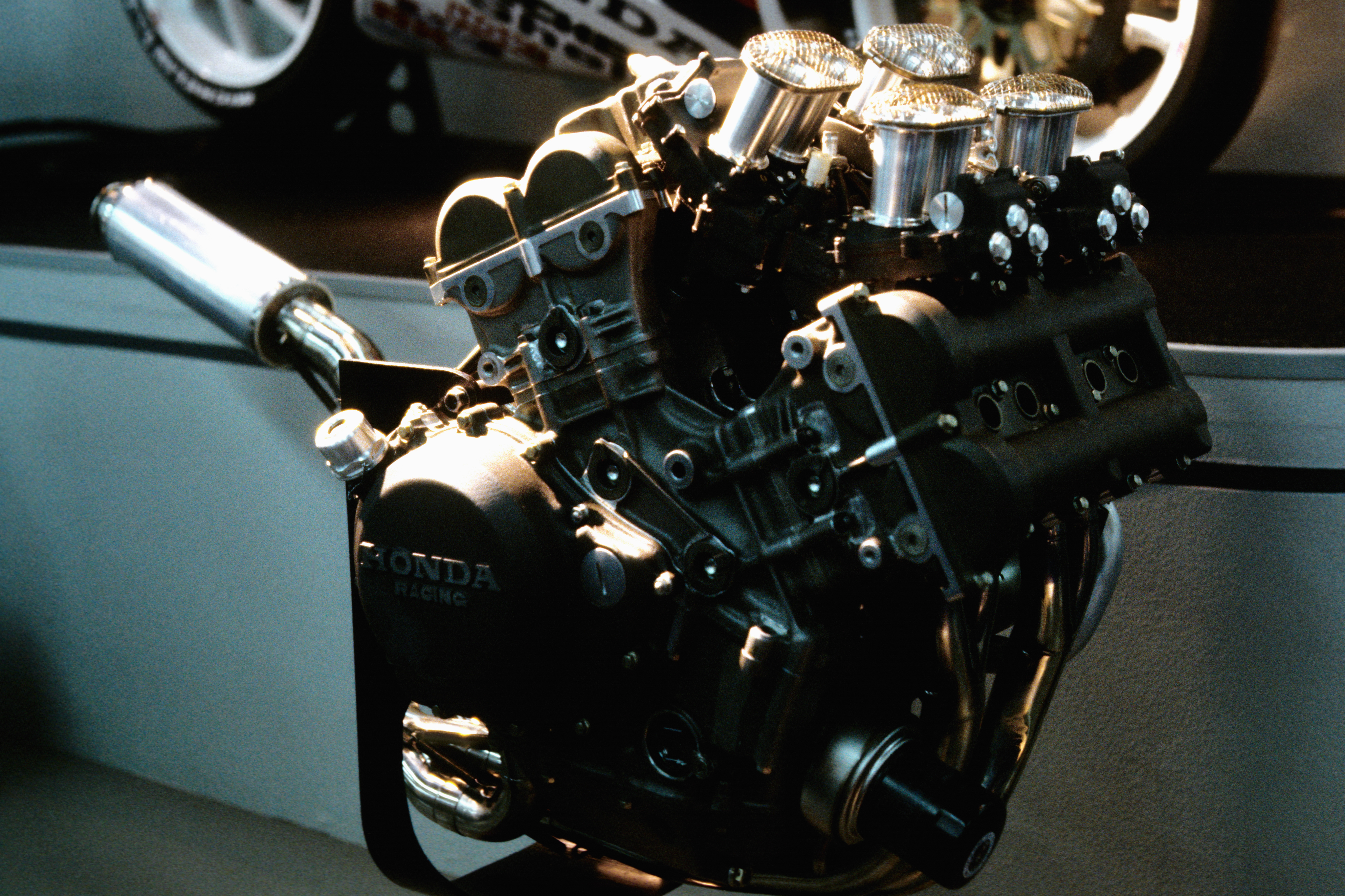 1987 Tokyo Motor Show